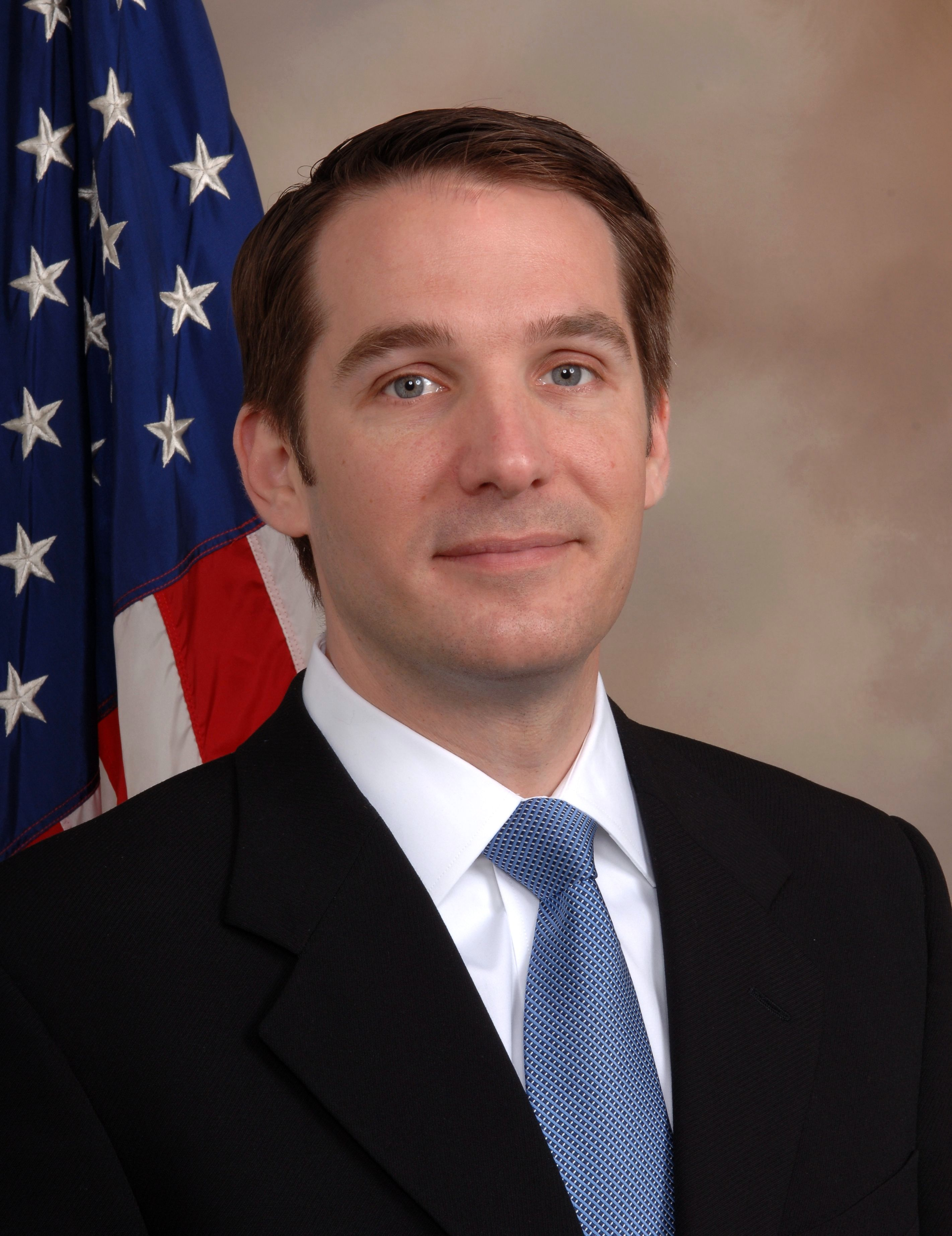 Congressman Glenn Nye(D-Va 2nd District)